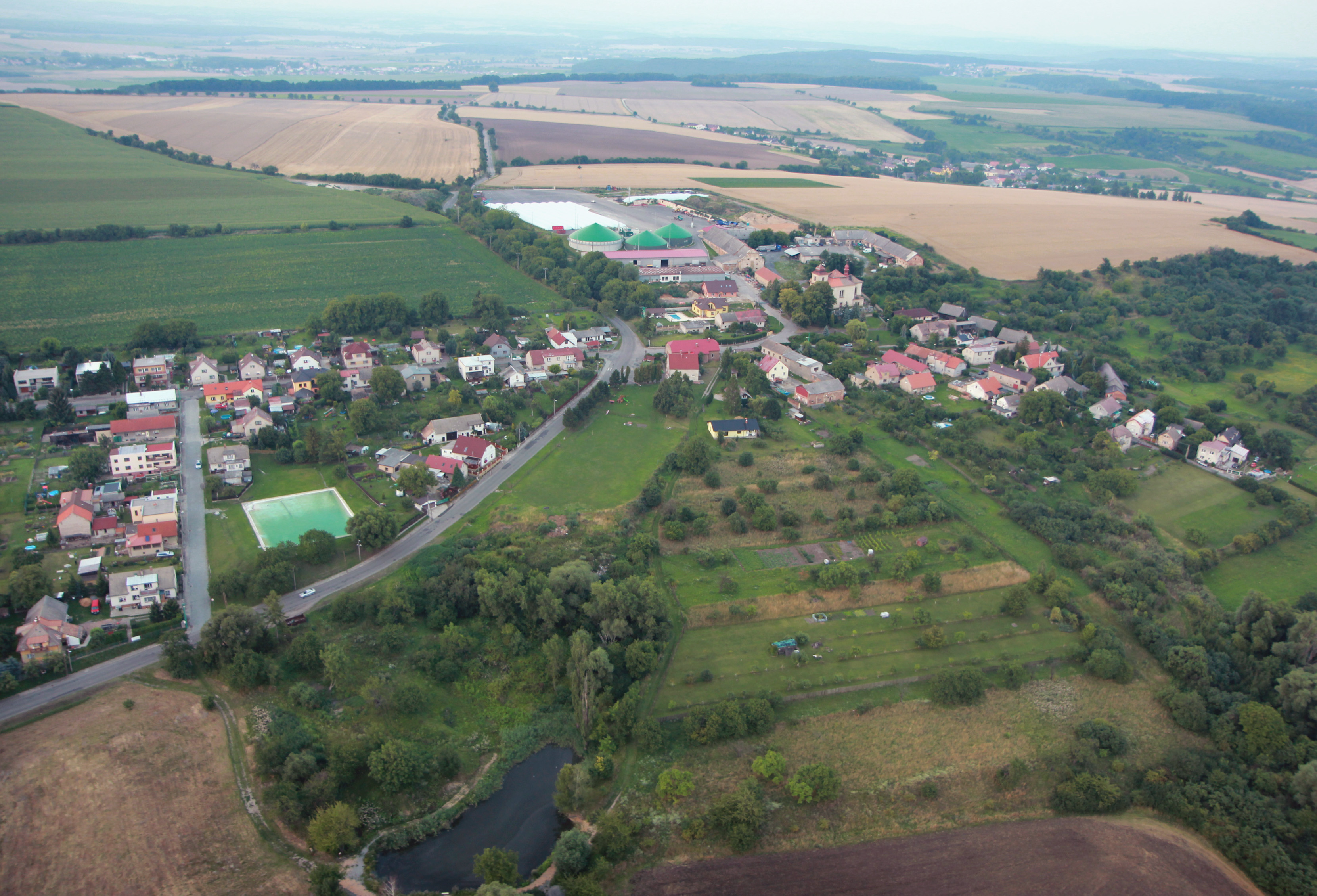 Aerial view of Týnec, part of Dobrovice village, Czech Republic